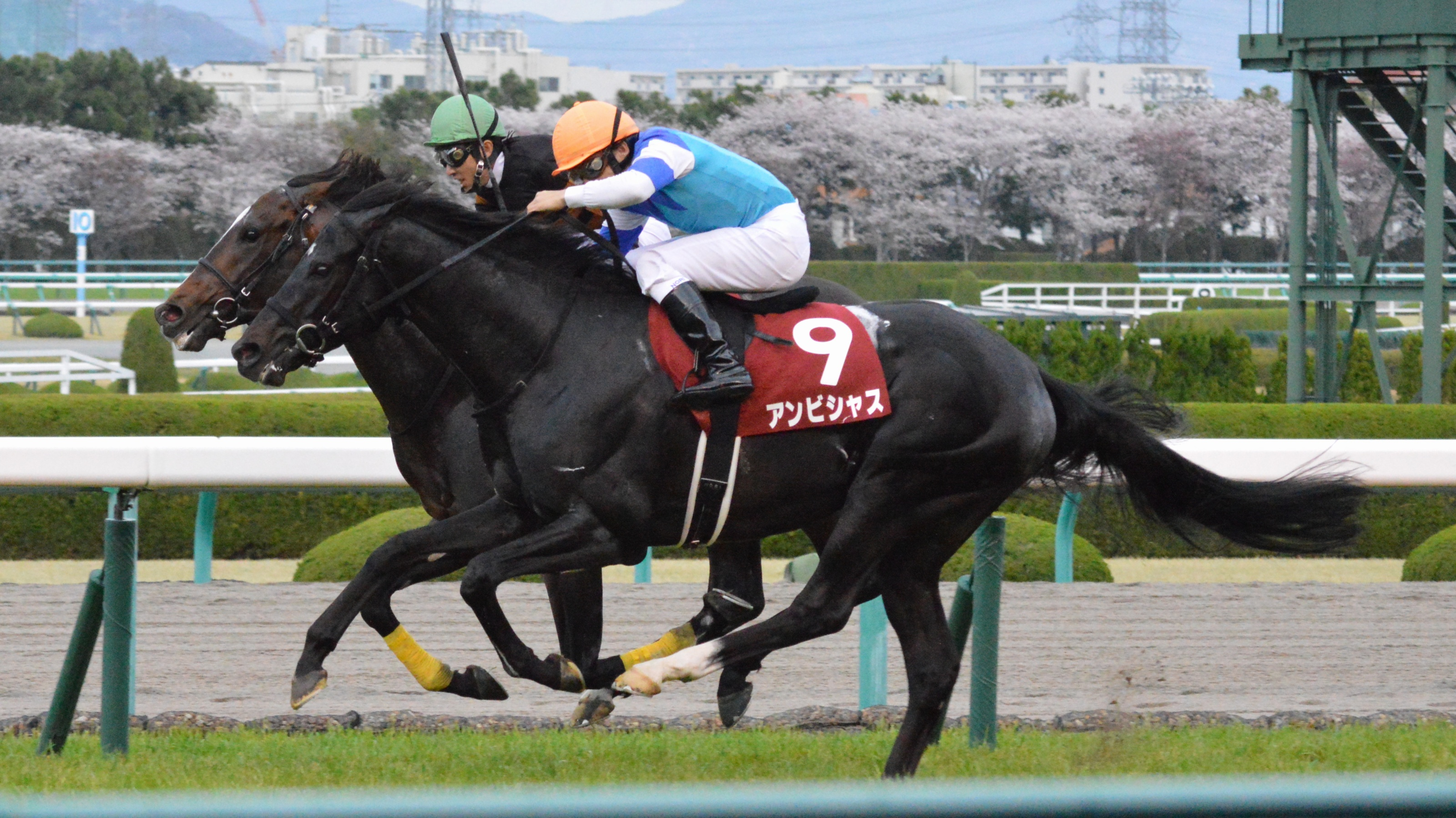 Japanese race horse Ambitious at Hanshin racecourse.